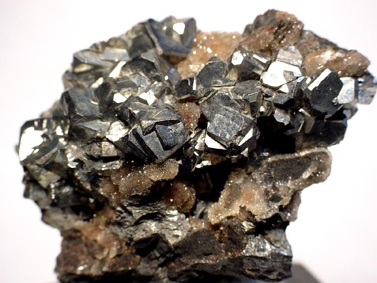 Nickelskutterudite (Var.: Chloanthite), Quartz Locality: Schneeberg District, Erzgebirge, Saxony, Germany (Locality at ) Size: 5 x 4 x 2 cm. Extremely sharp crystals to 7mm, combined with unusually fine isometric crystallography, makes this specimen a superb miniature for the locality. These were collected, I am told, between the 1880s and 1920s.